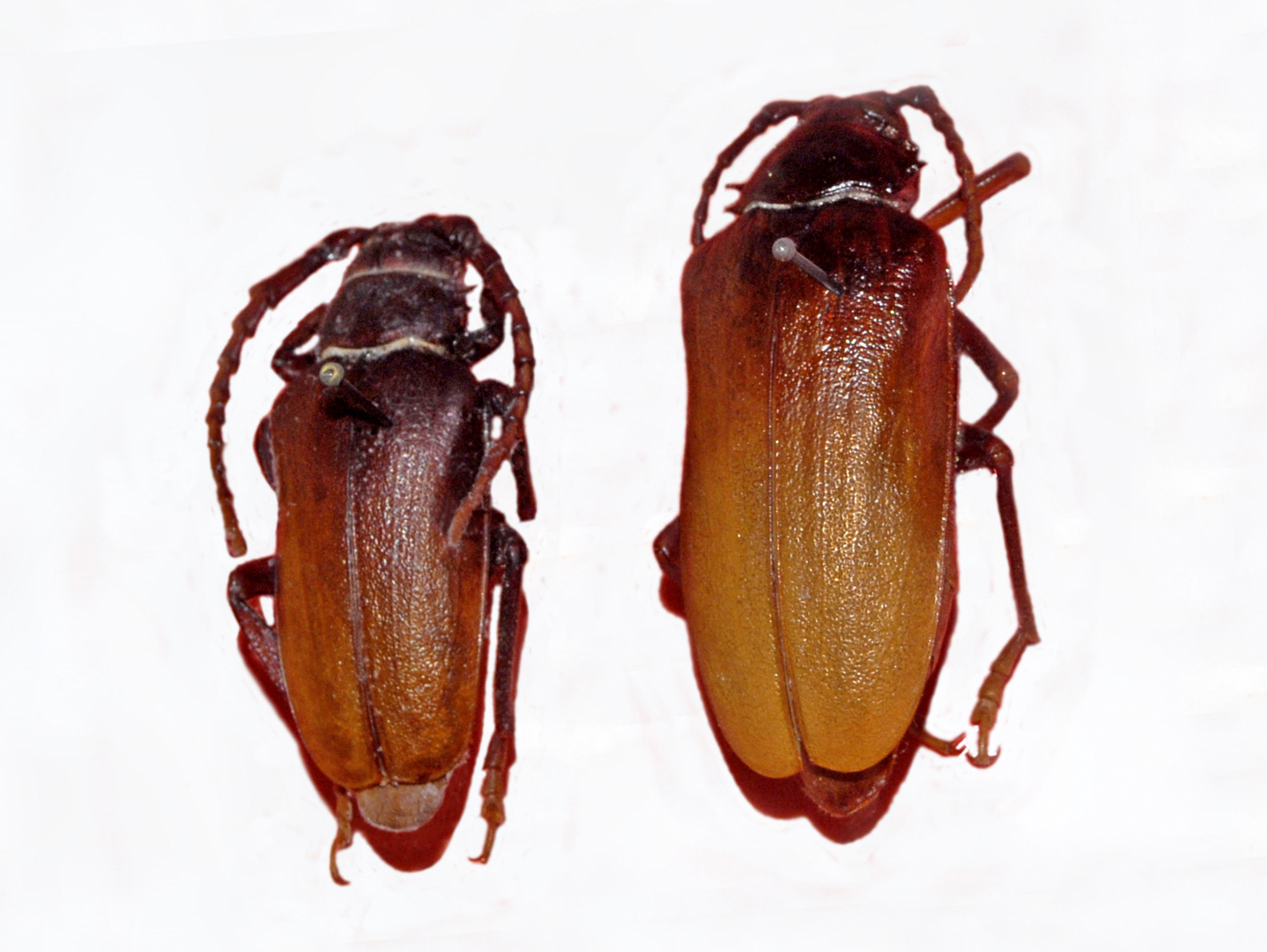 Prionus coriarius, male and female. Mounted specimen on display at the Museo Civico di Storia Naturale di Milano